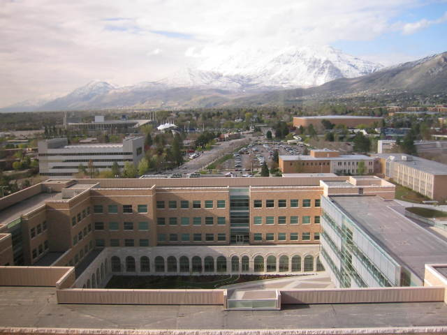 Same spot, but better picture (taken after new Smith building completed). BYU